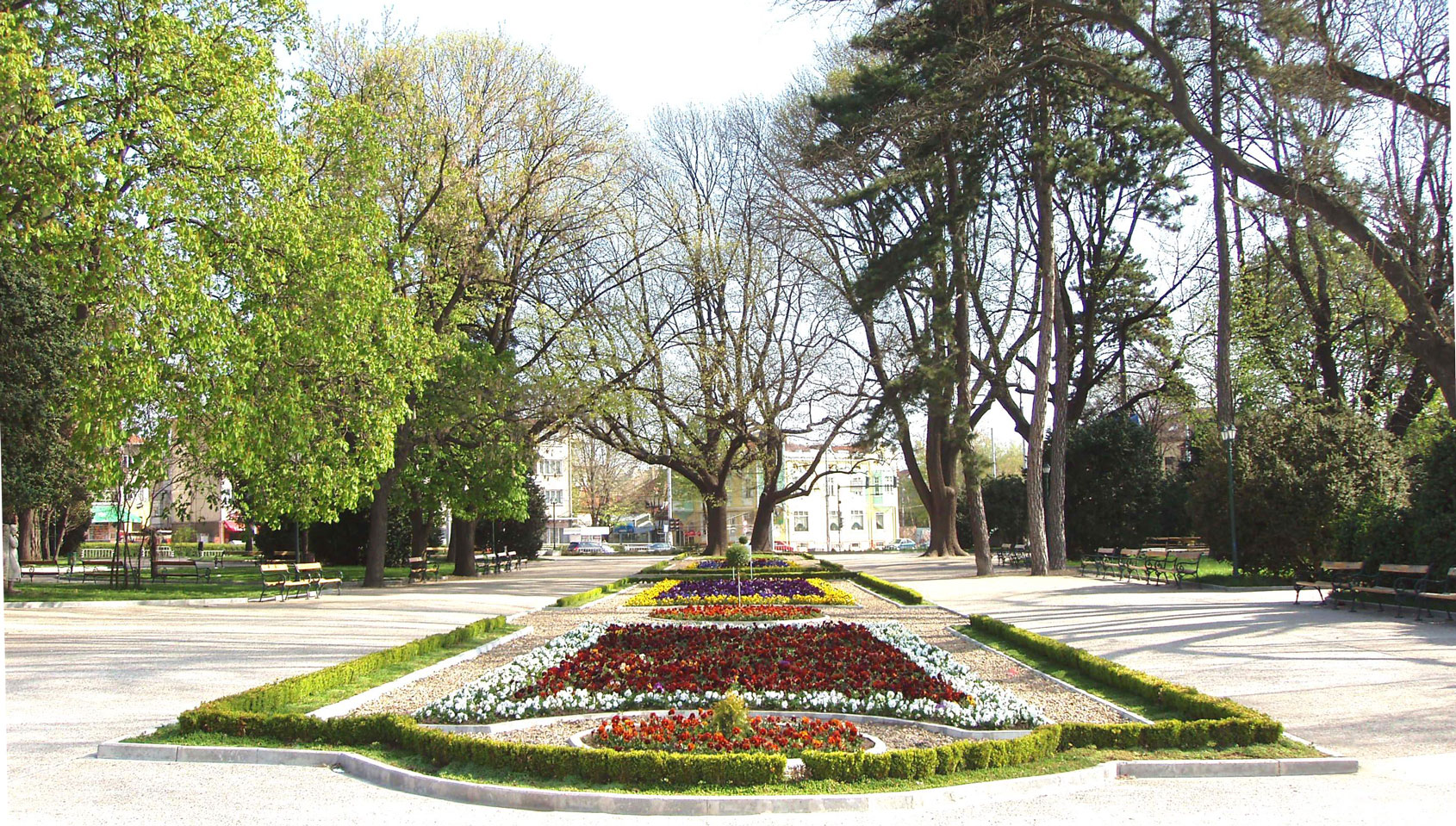 Dobrich park entrance, photography: Petia Stoianova, digital retouch: User:kosigrim